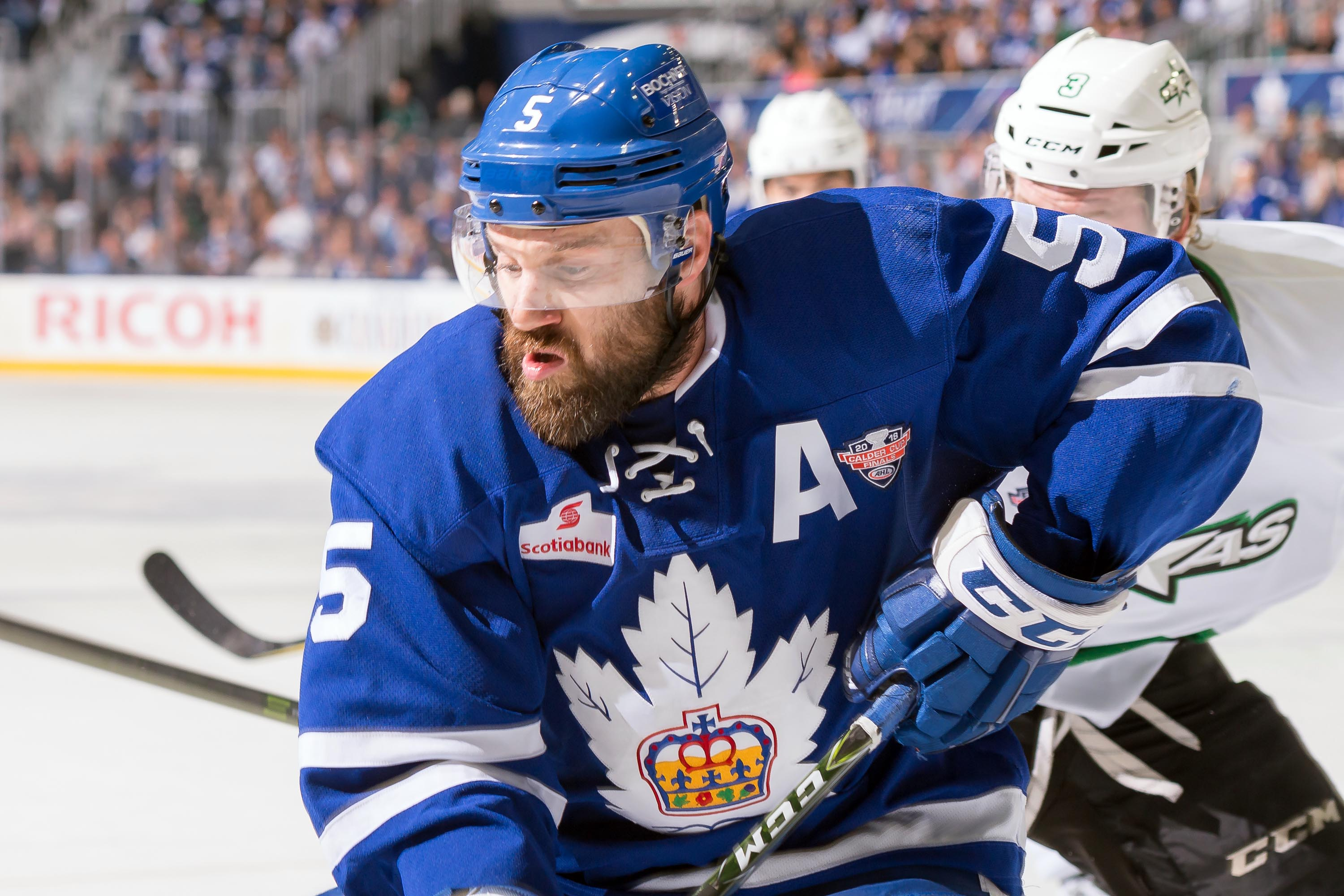 Photo: Christian Bonin